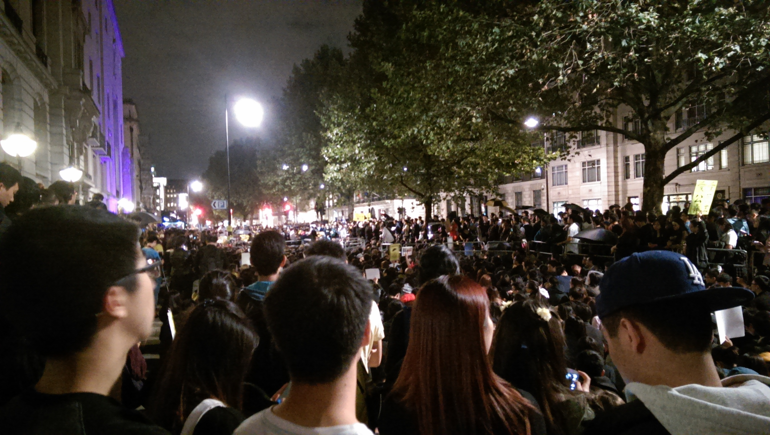 3000-4000 people gathered outside Chinese Embassy London to support the umbrella revolution in Hong Kong